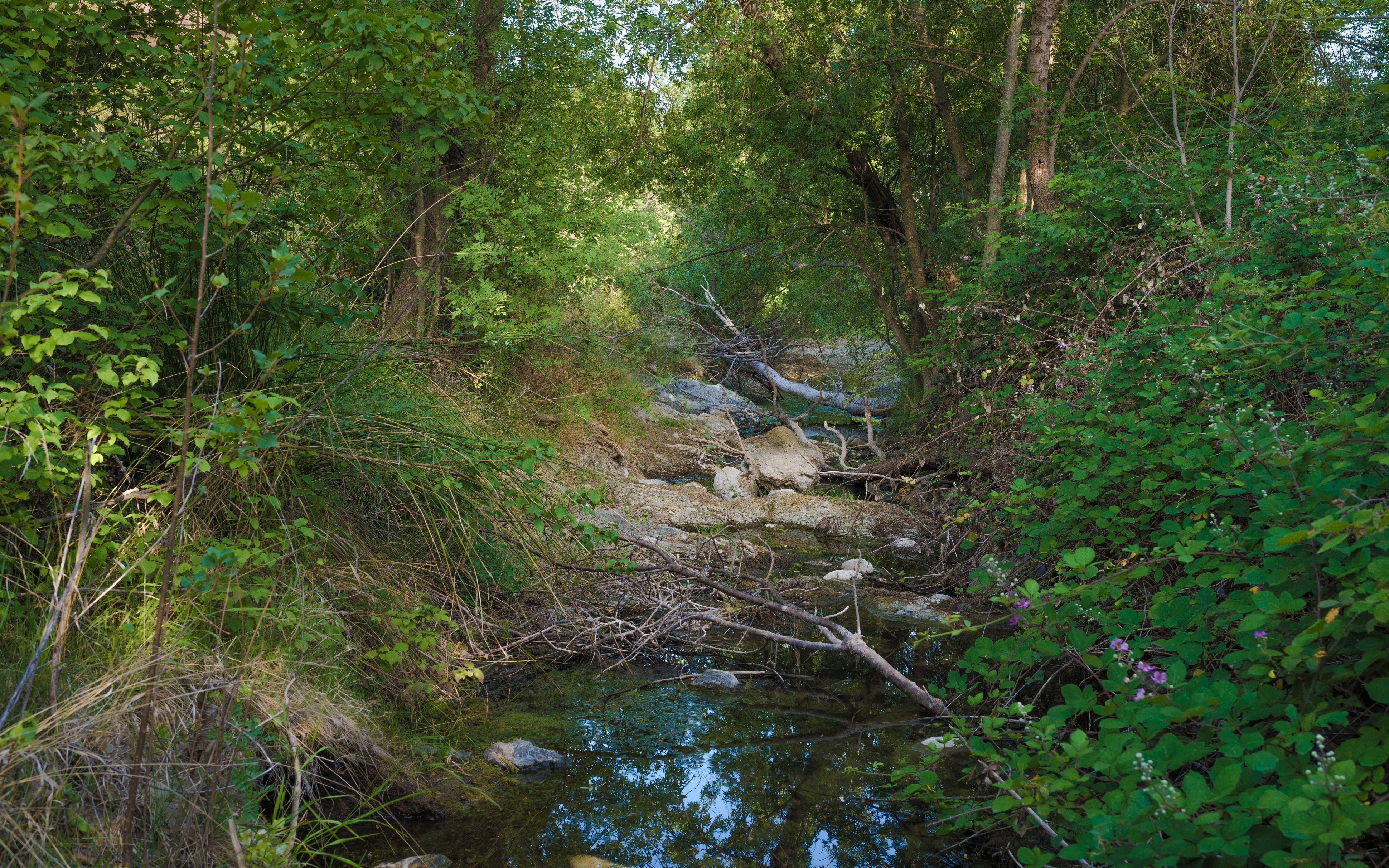 La Boyne River. Place : Cabrières, Hérault, France.